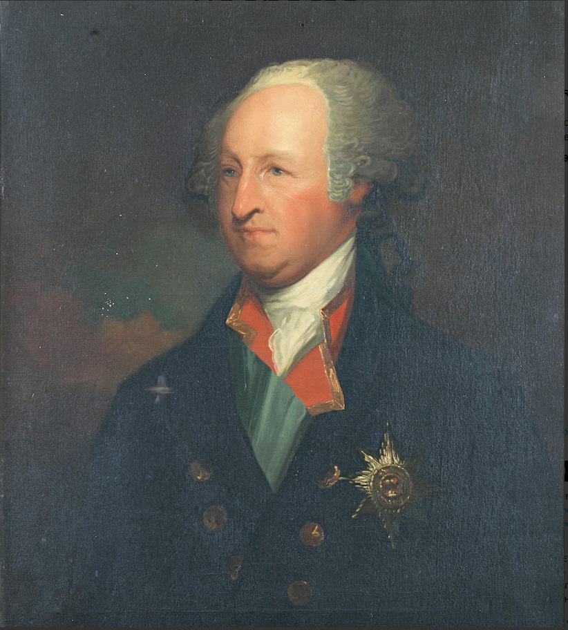 George Beresford, First Marquess of Waterford